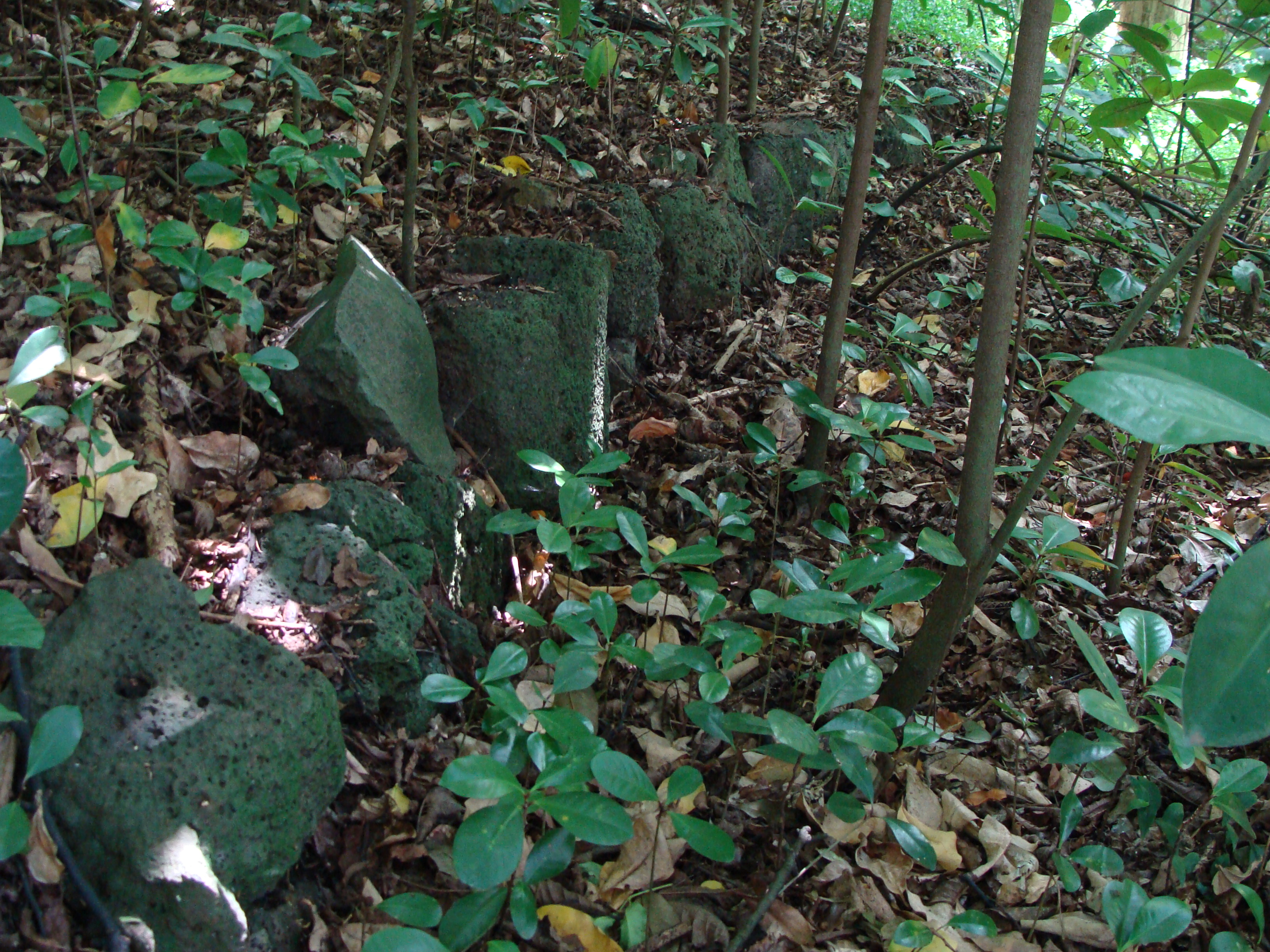 Forest covered remnant of Mount Smart volcano's lower slopes, Auckland, New Zealand.